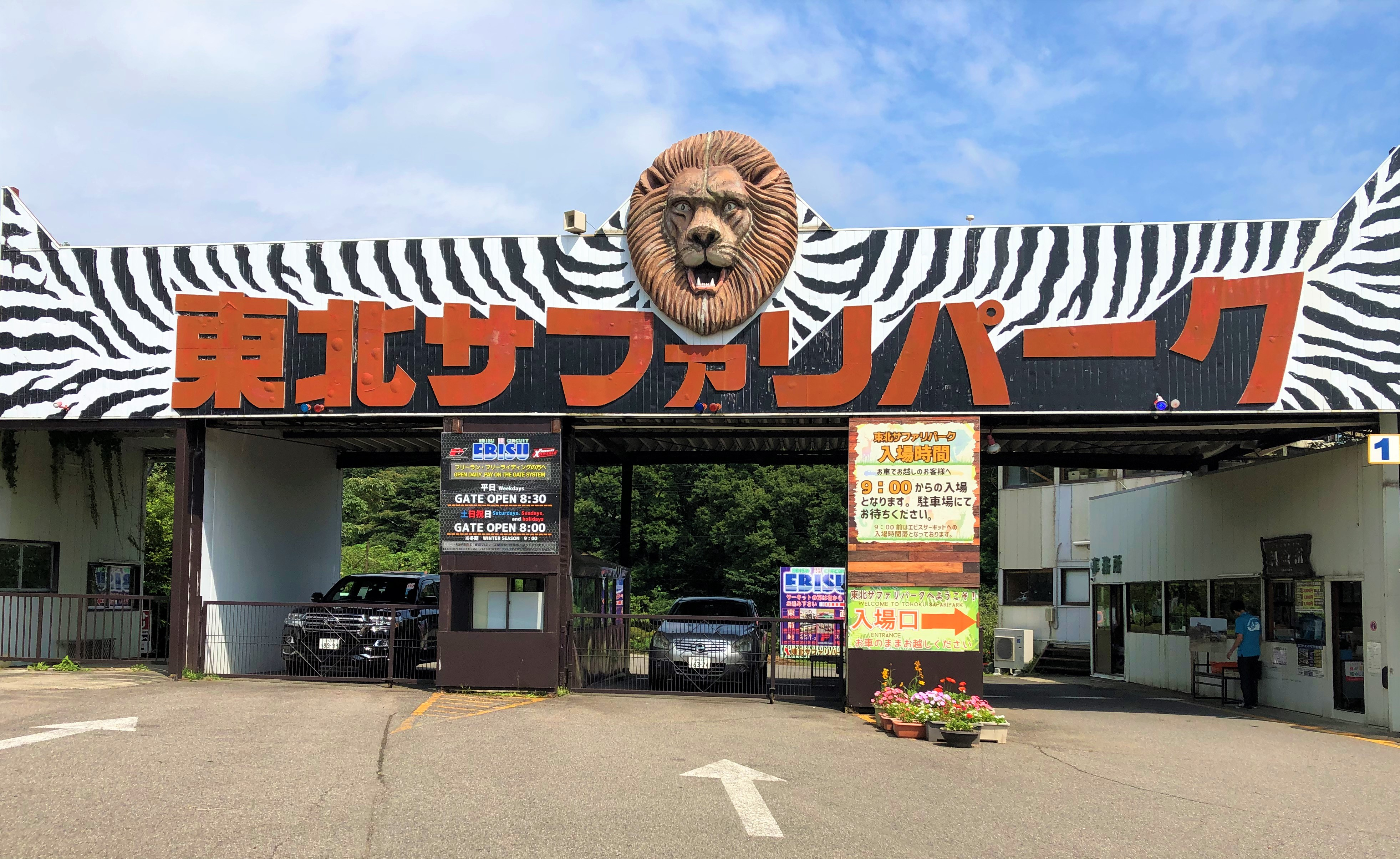 東北サファリパーク入口料金所2019年